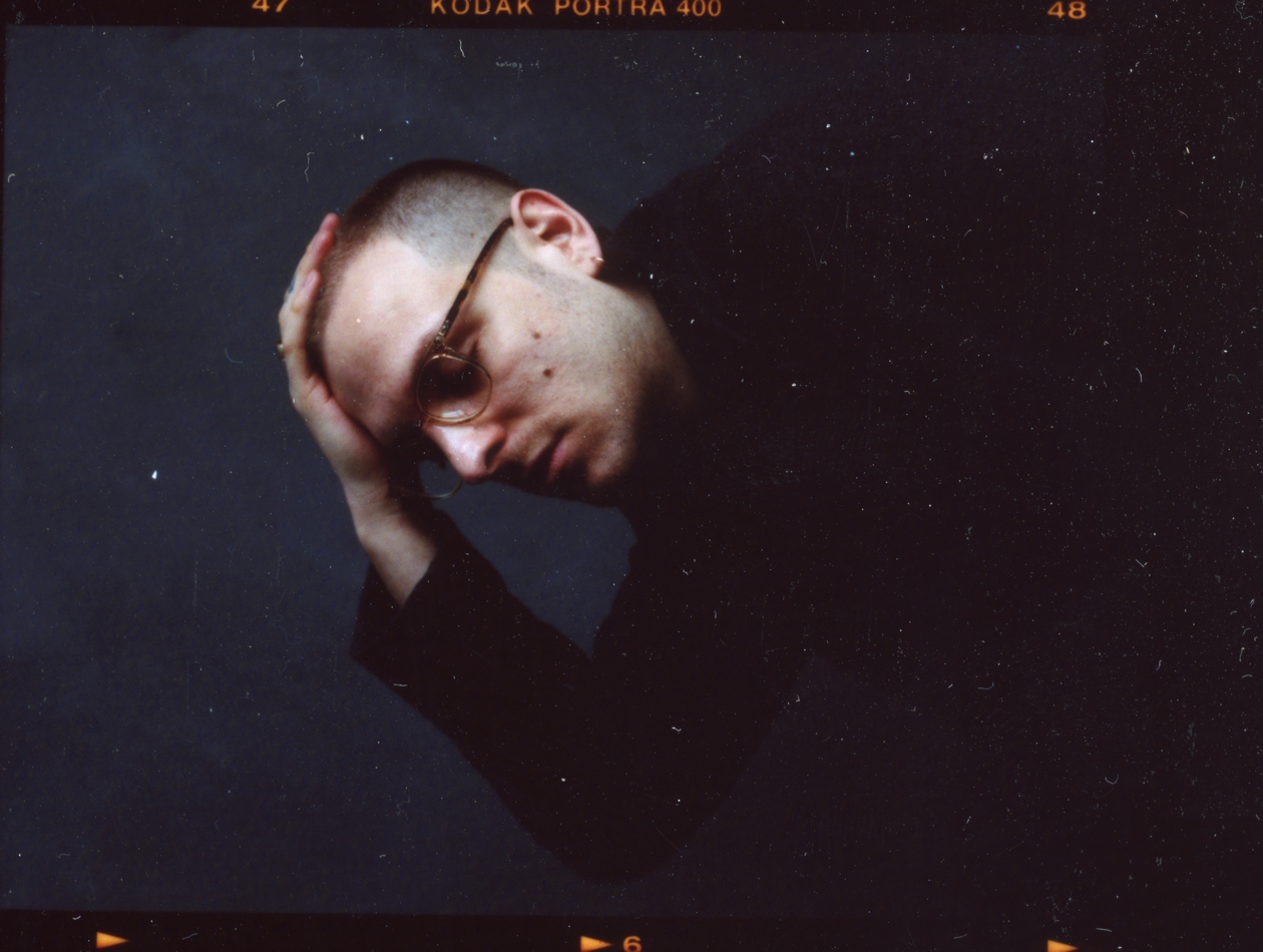 Press shot of Leon Vynehall